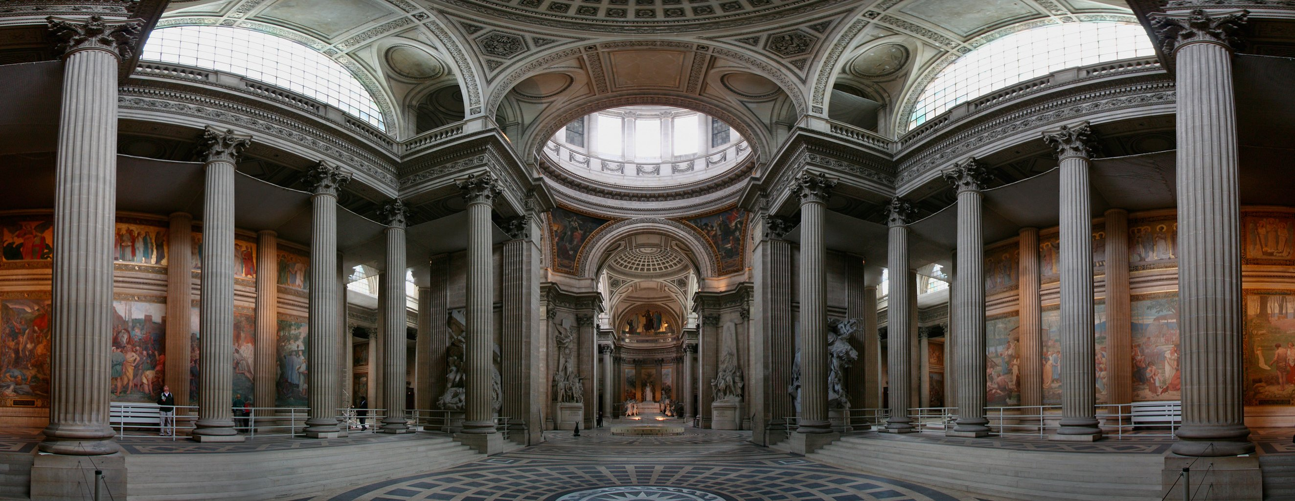 This is a panoramic view of the Pantheon in Paris.